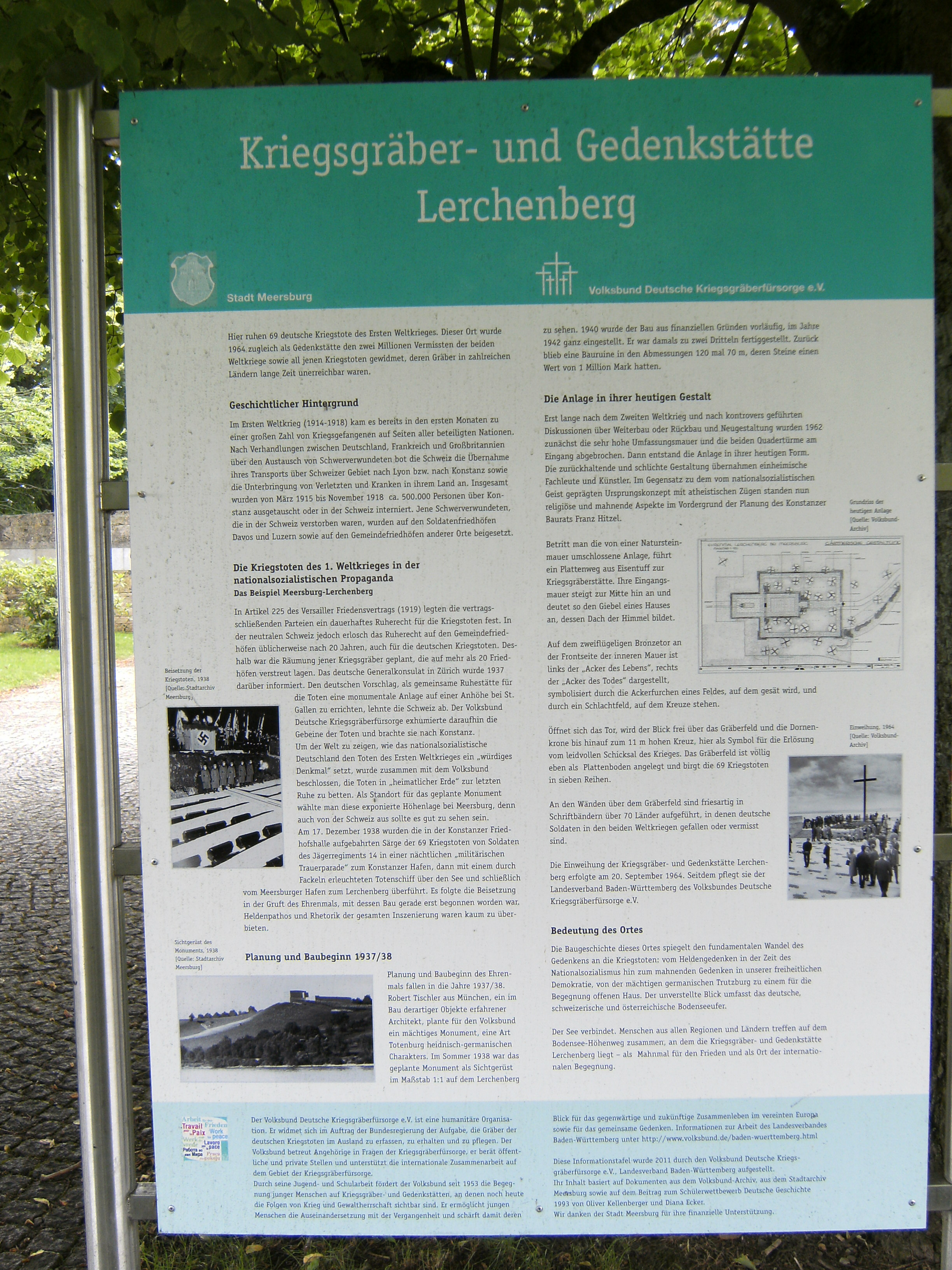 Information board at German military cemetery in Meersburg-Lerchenberg, Germany, concerning fate of buried soldiers of World War I.